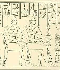 Amenmose and Wadjmose, from the tomb of Paheri in el-Kab